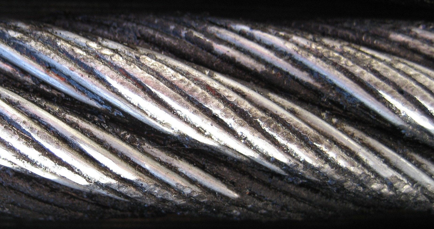 Section of right-hand Lang's lay wire rope